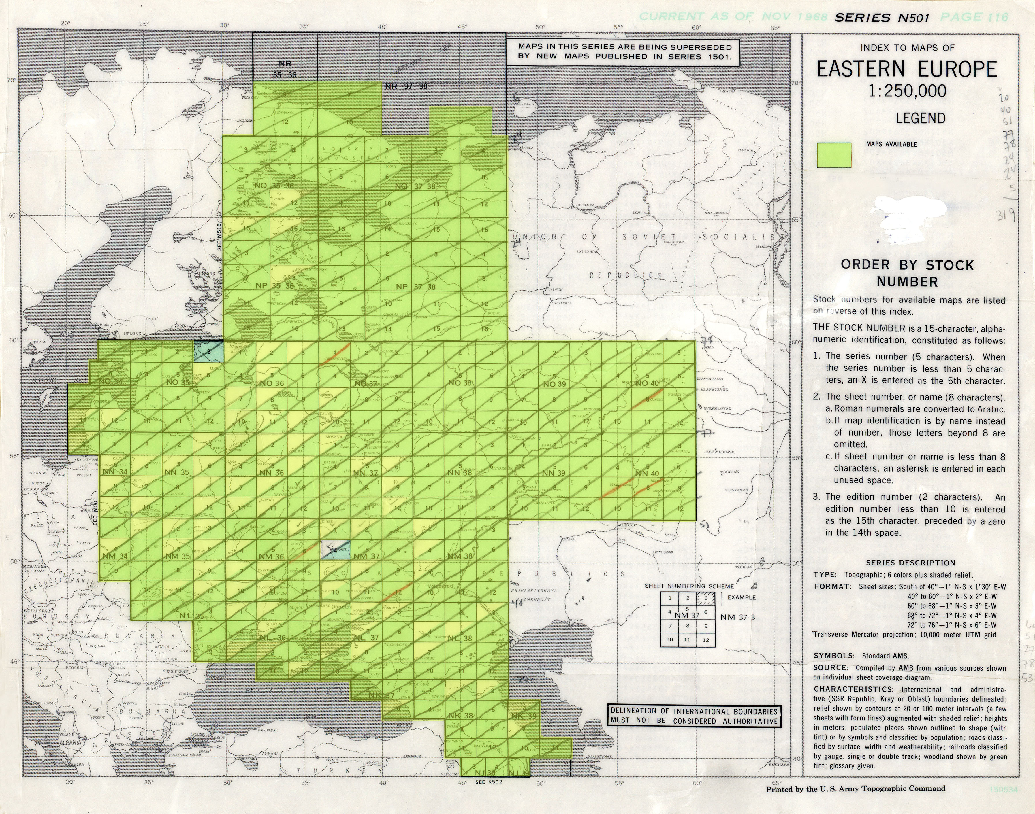 List from Eastern Europe AMS Topographic Maps. Series N501, U.S. Army Map Service, 1954